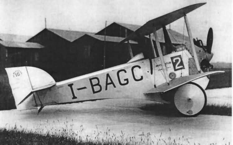 Italian Macchi M.16 sport aircraft